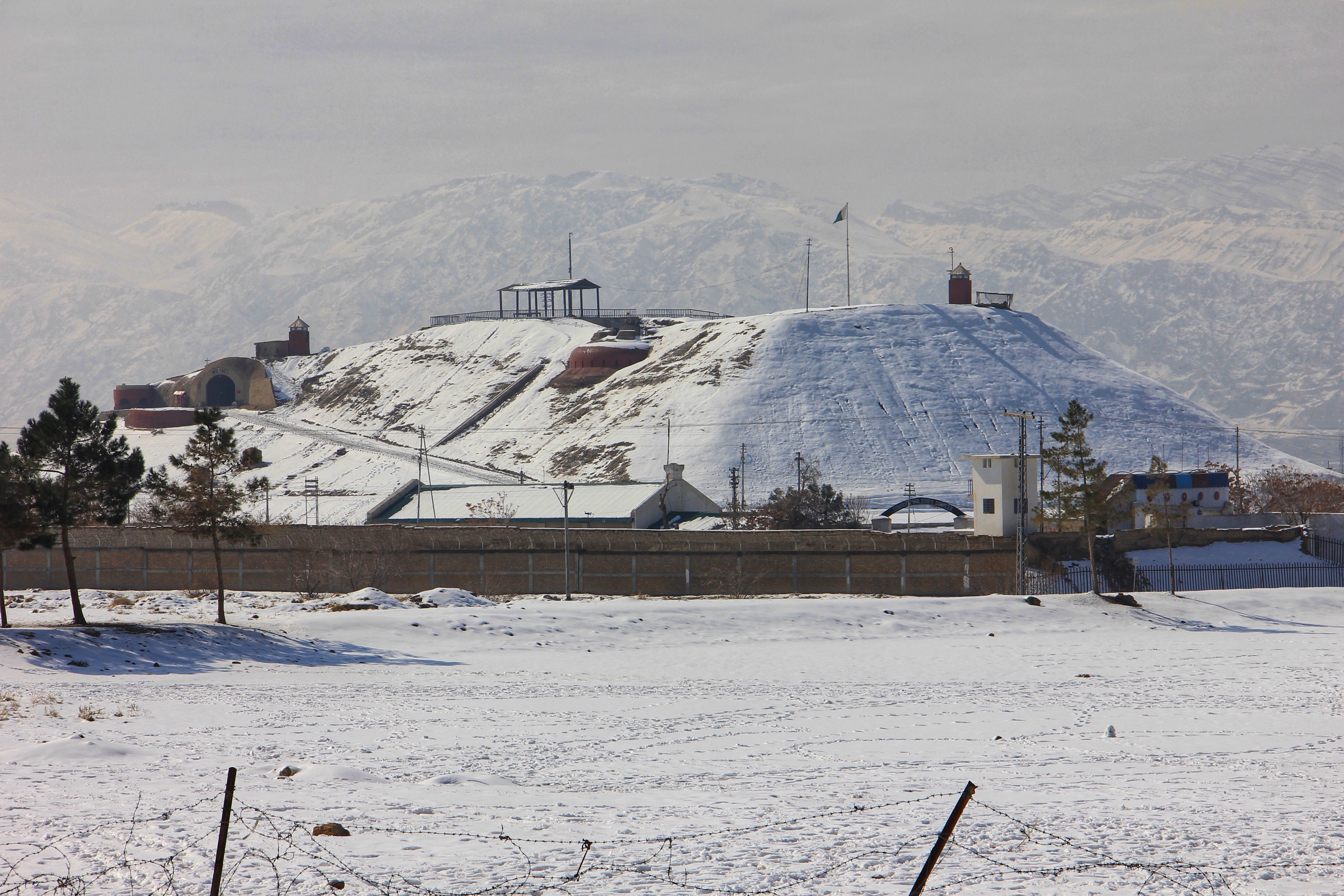 Quetta Fort Mirri during winter